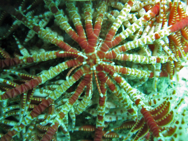 Underside of Oxycomanthus exilis showing typical concentric banding colour pattern and few weak cirri.